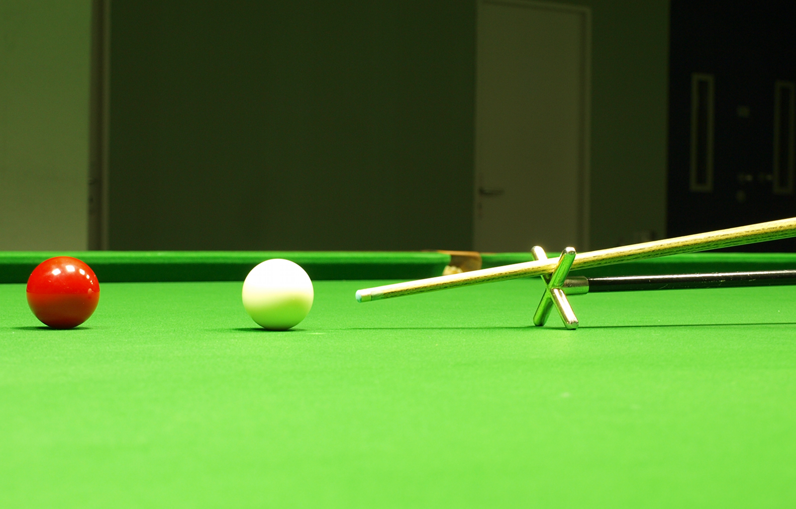 A rest or mechanical bridge called the cross for snooker and other cue sports.